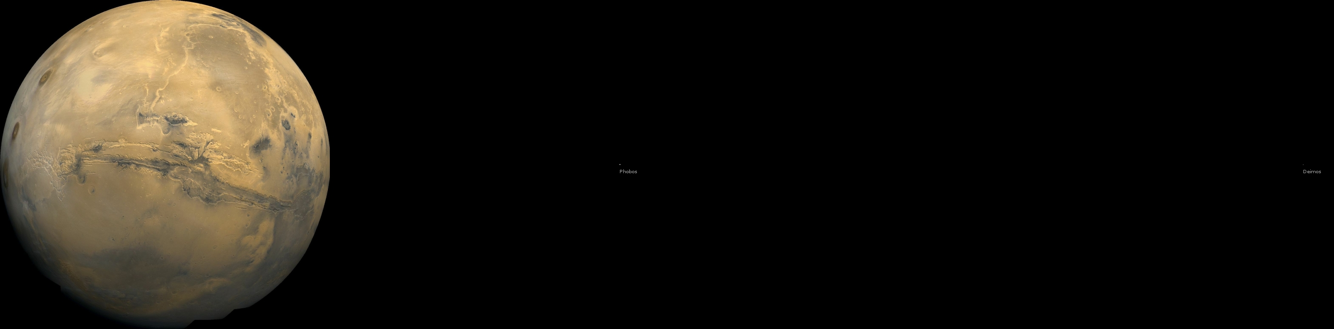 Summary: The Orbits of Phobos and Deimos to scale (1px = 10km), all sizes to scale -- Click to see moons, they are invisible from this level Author: Nbound 06:01, 13 September 2006 (UTC) Source: Mars Image from Mars page edited to needed requirements